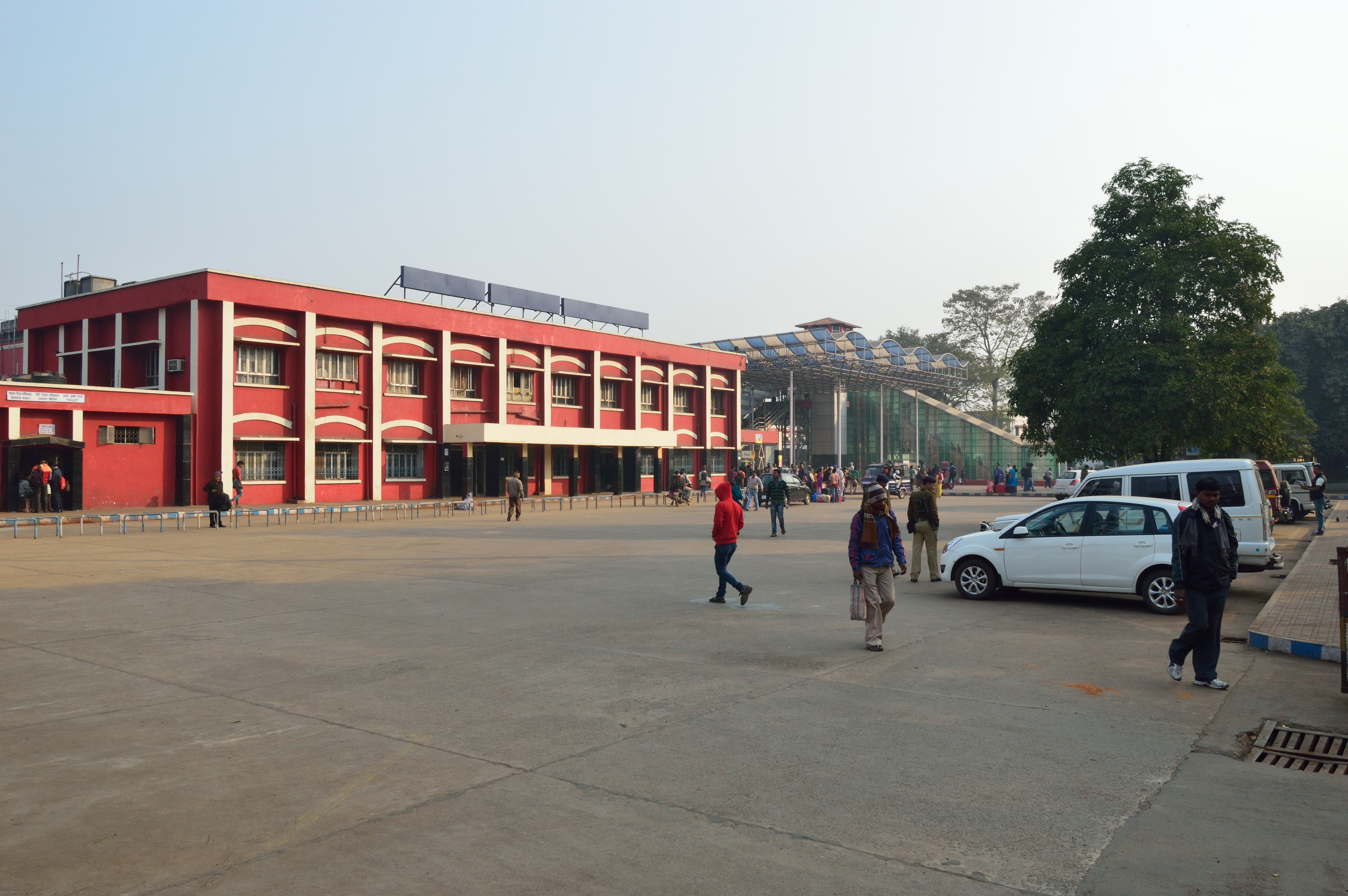 Photographed at the railway station area.